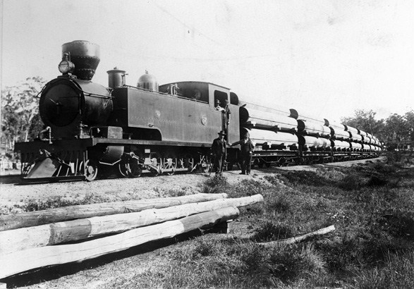 A three quarter view of a WAGR K class tank locomotive, possibly no. K37, fitted with a soft coal chimney, ready to unload a train of Mephan Ferguson's patent locking bar steel pipes made for the Goldfields Water Supply Scheme, Western Australia.